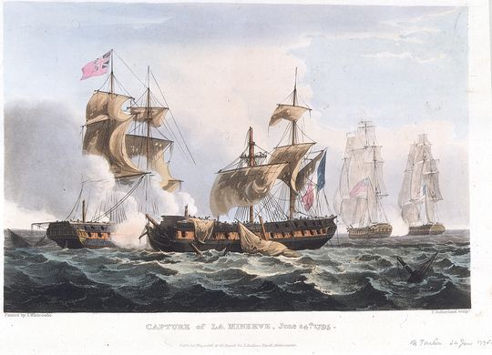 Capture of Minerve off Toulon